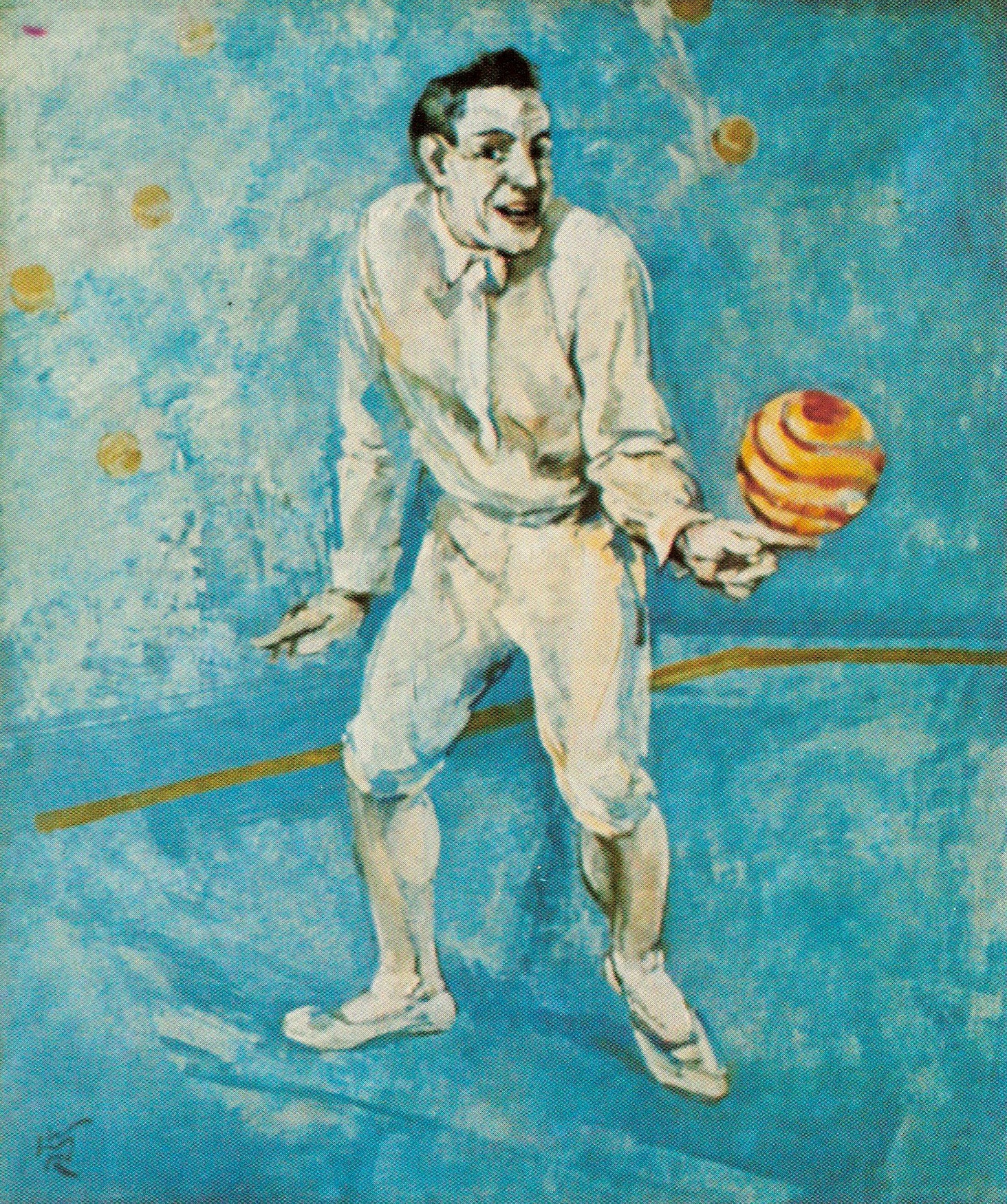 Rudolf Wilhelm Heinisch, Der Jongleur Rastelli, 1929, Oil on Canvas, 108x101